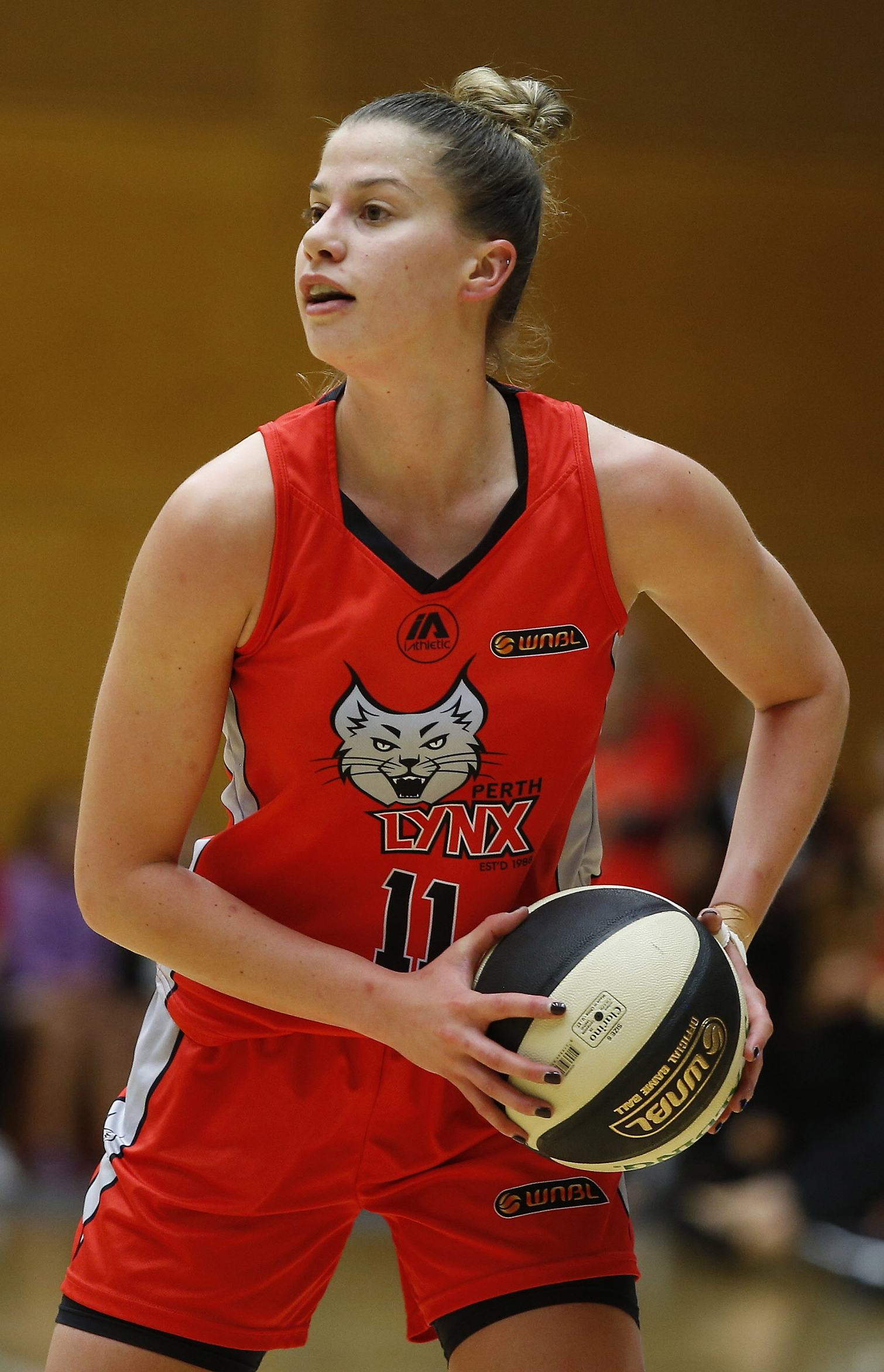 Olivia Thompson in action for the Perth Lynx.